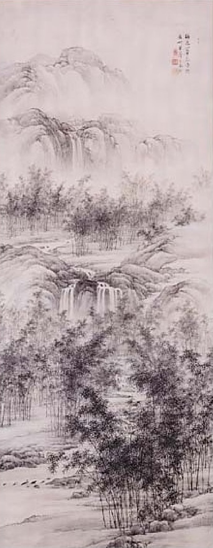 Painting "Waterfali and bamboo-groove"